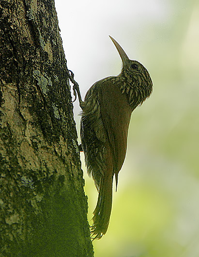 Image taken on the edge of the Nariva Swamp, Trinidad.